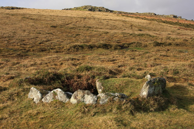 The Money Pit A cairn and cist known as the Money Pit on the south-east slopes of Yar Tor.